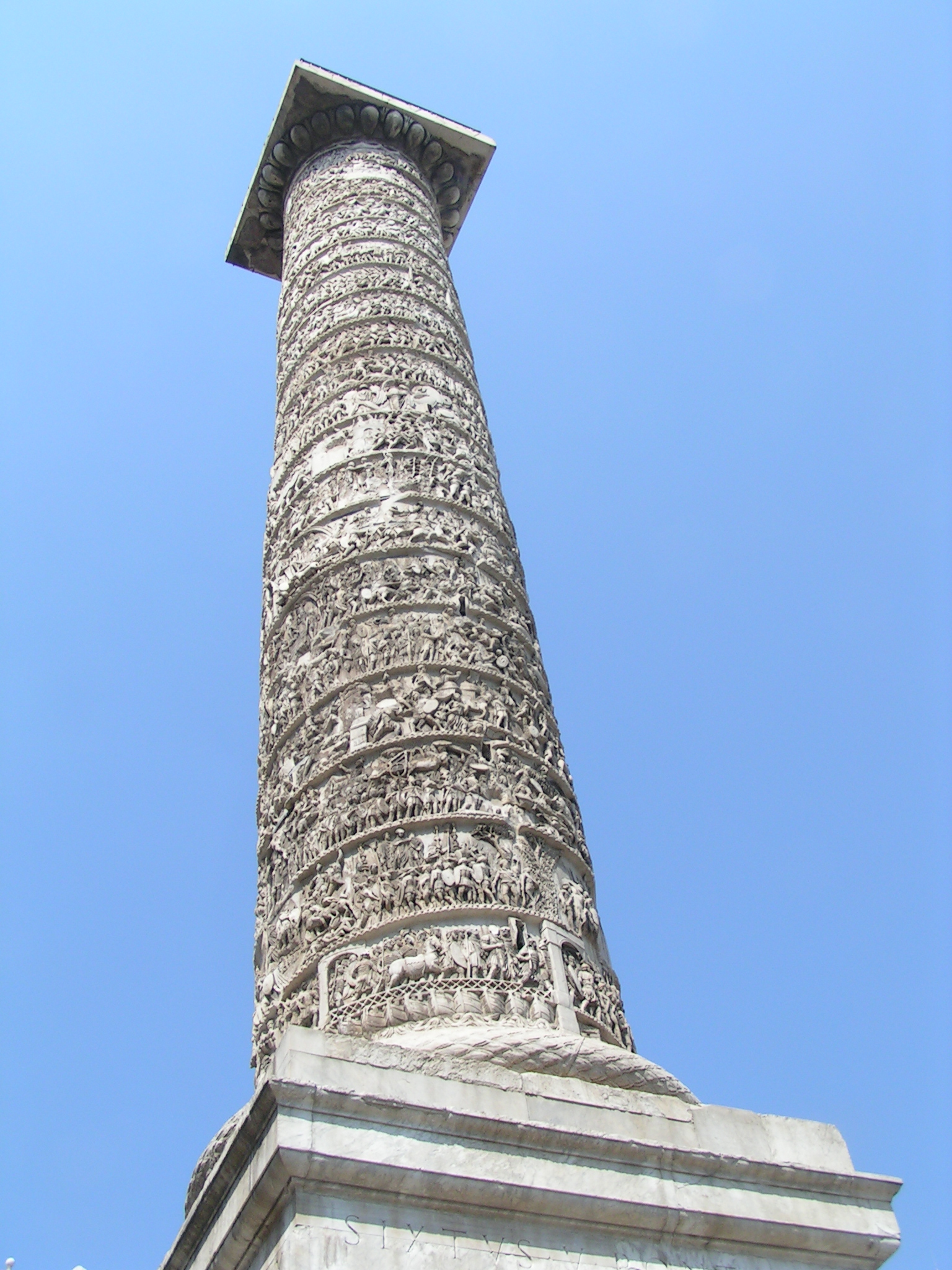 The Column of Marcus Aurelius is a Doric column, with a spiral relief, built in honour of Roman emperor Marcus Aurelius and modeled on Trajan's Column. It still stands on its original site in Rome, in piazza Colonna, before Palazzo Chigi.